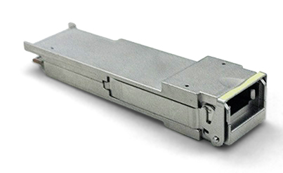 This is a 40GB QSFP Cisco Transceiver.